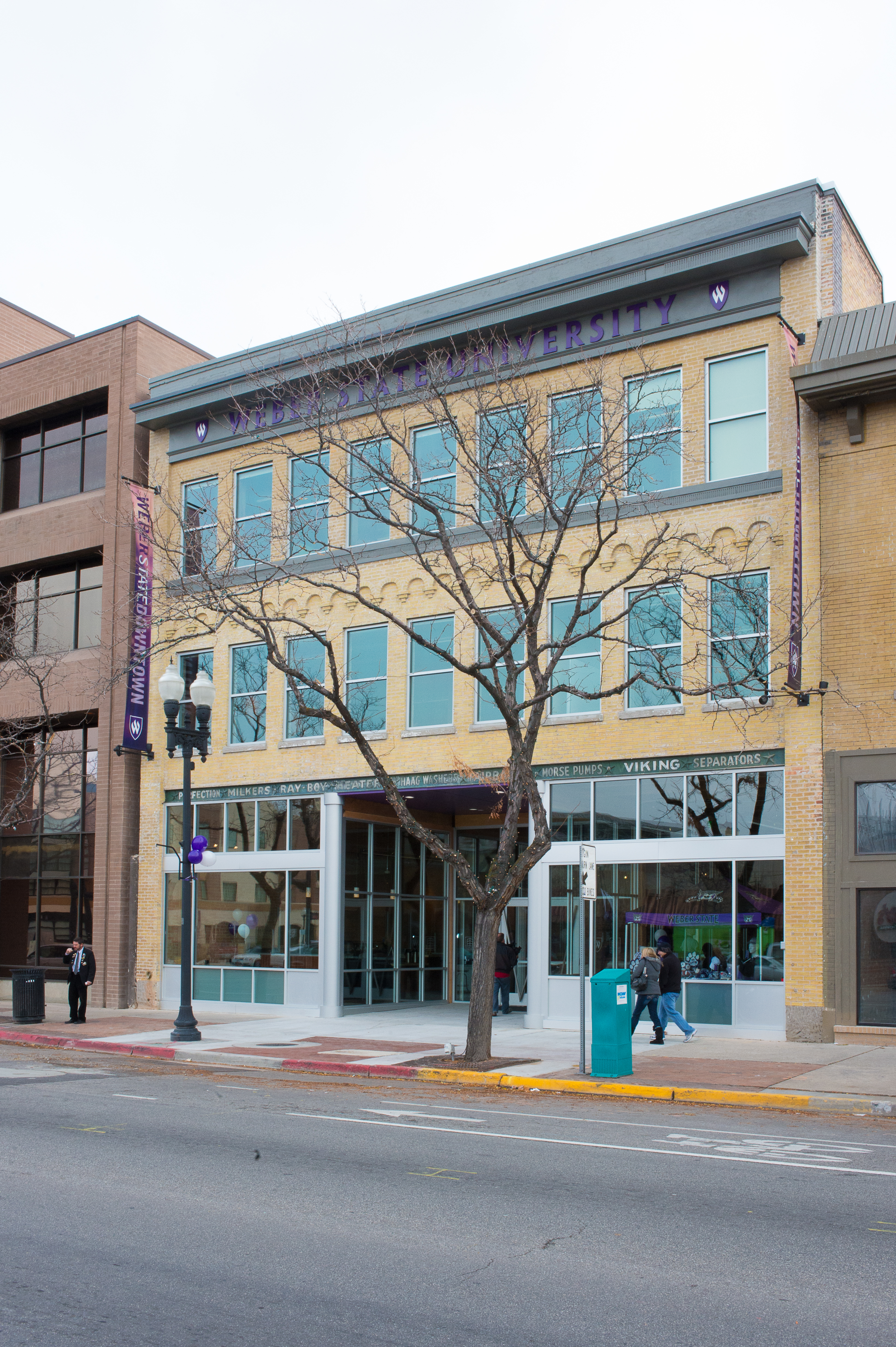 Weber State University Downtown location on 2314 Washington Blvd., Ogden, Utah.